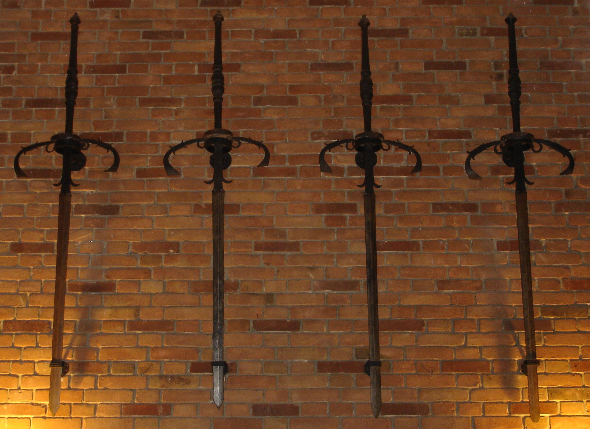 "Schlachtschwerter" in the citizens' hall of the historical city hall in Münster, Westphalia, Germany